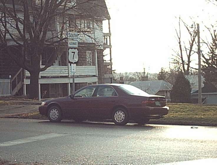 SkipperRipper, taken December 2006. This is the only US 7 Alternate shield in existence in Burlington.